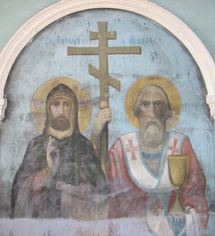 Saints Cyril and Methodius in the church built nr 1900 in Kaga, a village in Bashkortostan, Russia.